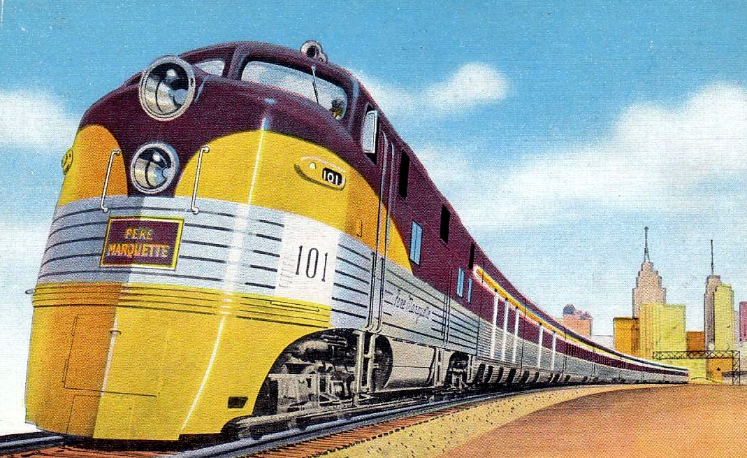 Postcard depiction of a Pere Marquette Railway streamliner.